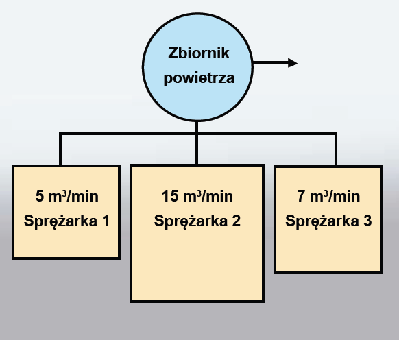 Compressed air system including a few compressors and one air receiver which is dimentioned on the basis of the largest compressor.